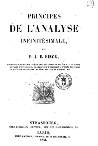 Front page of Principes de l'analyse infinitésimale (1841) by Pierre Joseph Etienne Finck (1797-1870)